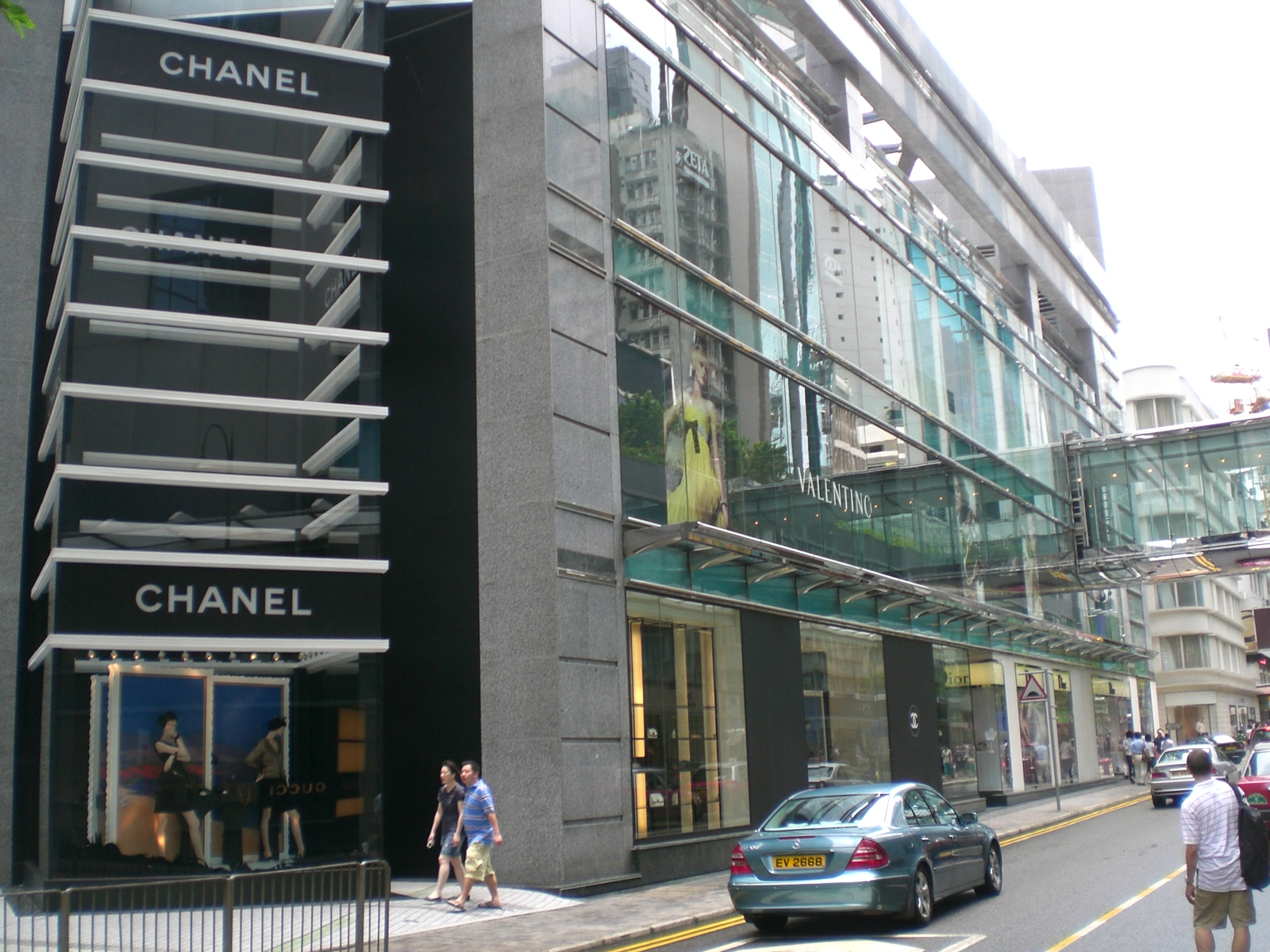 銅鑼灣, Causeway Bay Author= Kwanyatsw